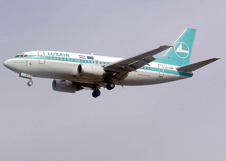 Luxair Boeing 737-500 (LX-LGO), on the approach to London (Heathrow) Airport (UK)